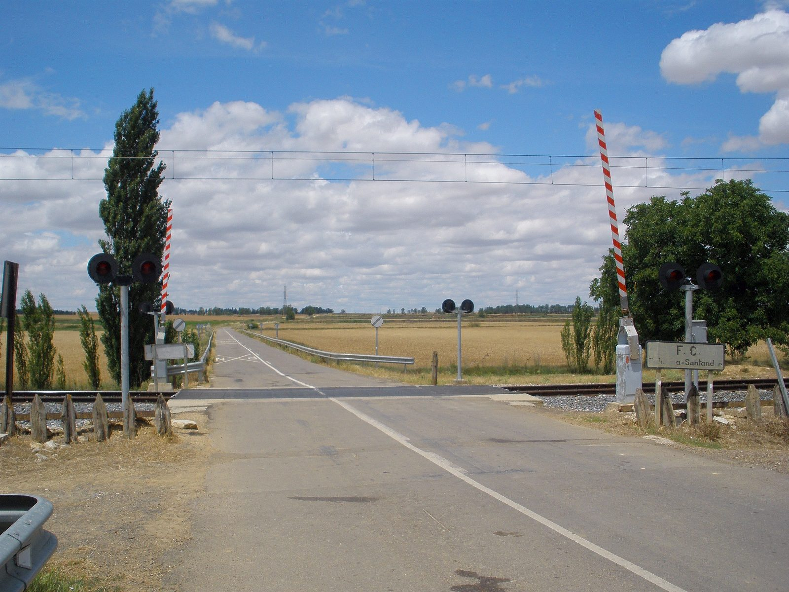 Paso a nivel en Amusco (Palencia)